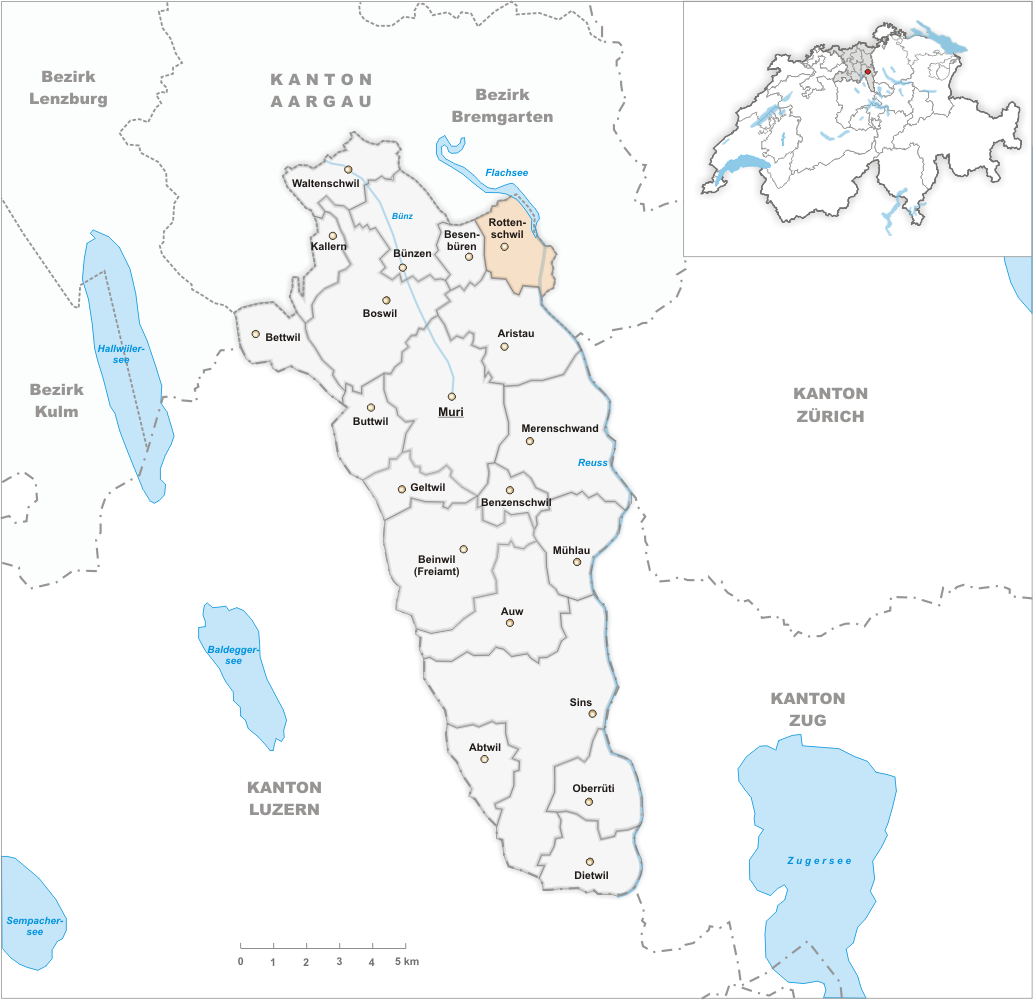 Municipality Rottenschwil